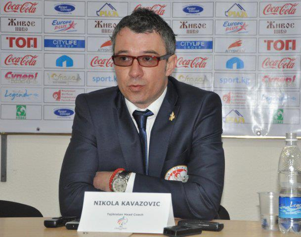 Picture of Nikola Kavazovic, Serbian football professional coach